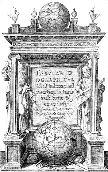 Cover for "Tabulae geographica" (1578), work of Ptolemy. Depicted are both Ptolemy and Marinus of Tyre, very likely in this order. This book was edited by Gerard Mercator in 1578.